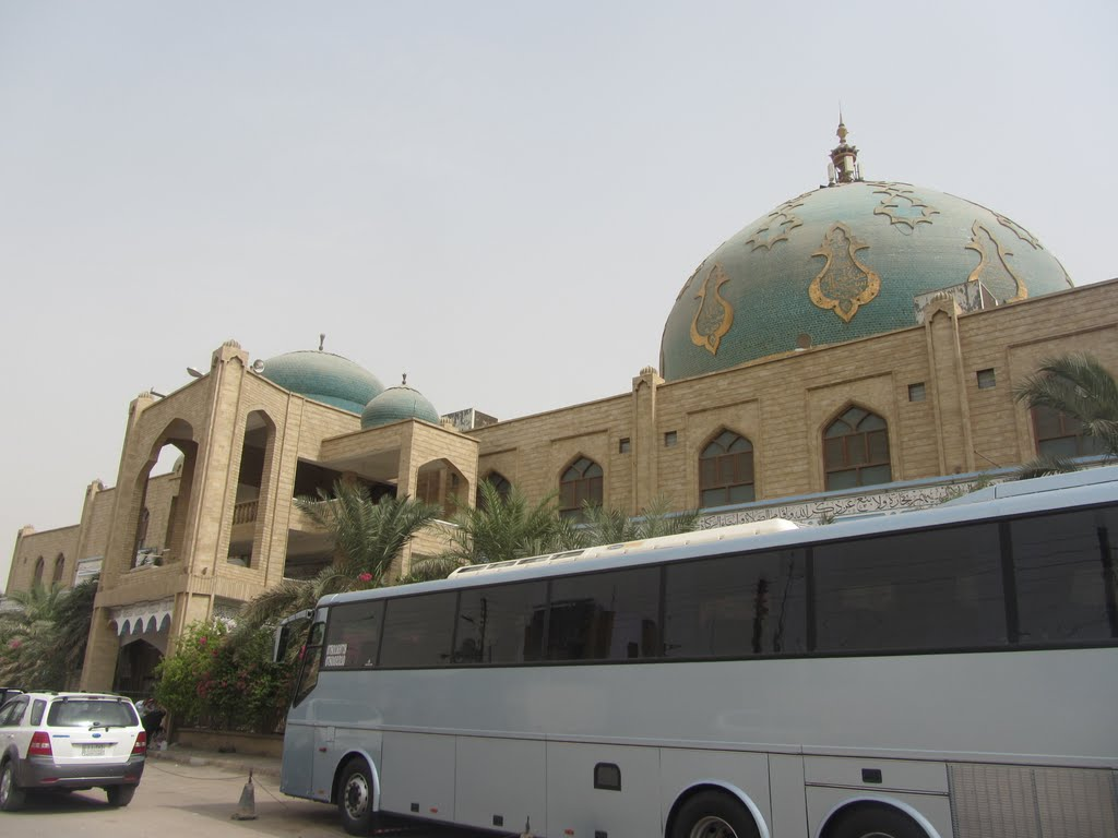 Mosque Moosovie in Basra City, Iraq